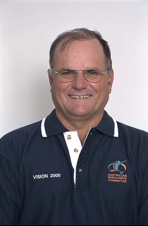 Portrait of Australian sailor Graeme Martin, 2000 Australian Paralympic Team athlete